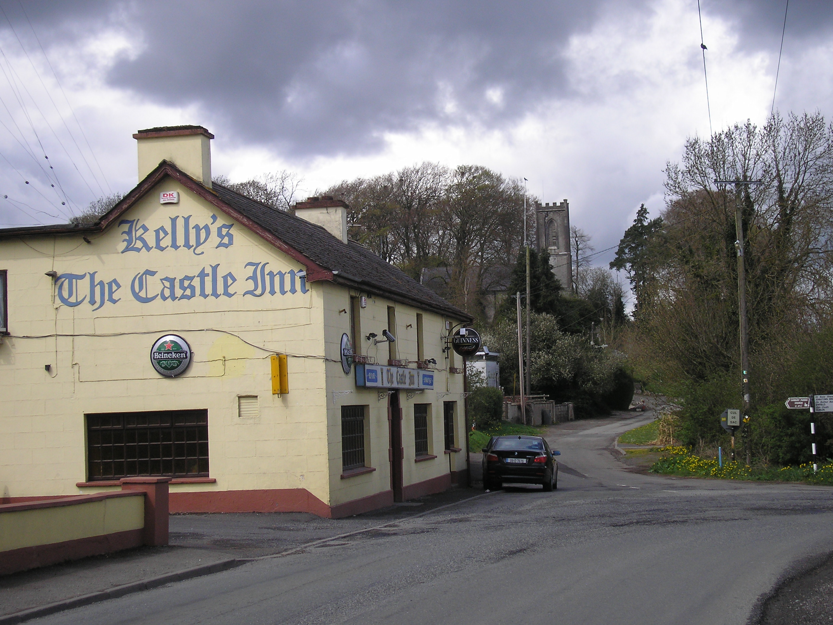 A view of carbury village with The Castle Inn.